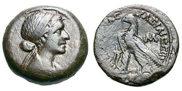 Ptolemaic Kingdom. Cleopatra VII. 51-30 BC. AE 40 drachms. Alexandria Obv: Diademed bust of Cleopatra VII right. Rv: ΒΑΣΙΛΙΣΣΗΣ ΚΛΕΟΠΑΤΡΑΣ Eagle standing on thunderbolt left. In left field, cornucopia, in right field, Μ. Dotted border.